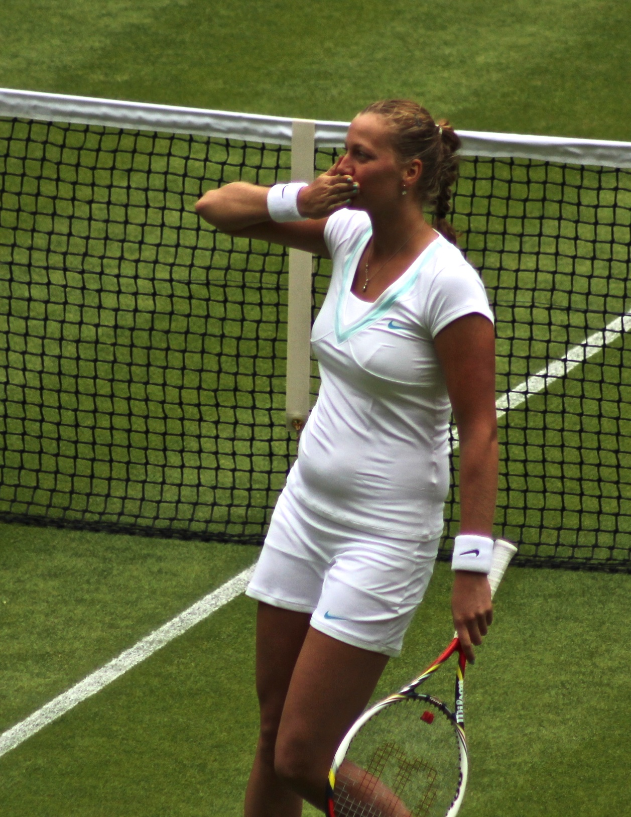 Kvitova embraces the crowd after her first round win.